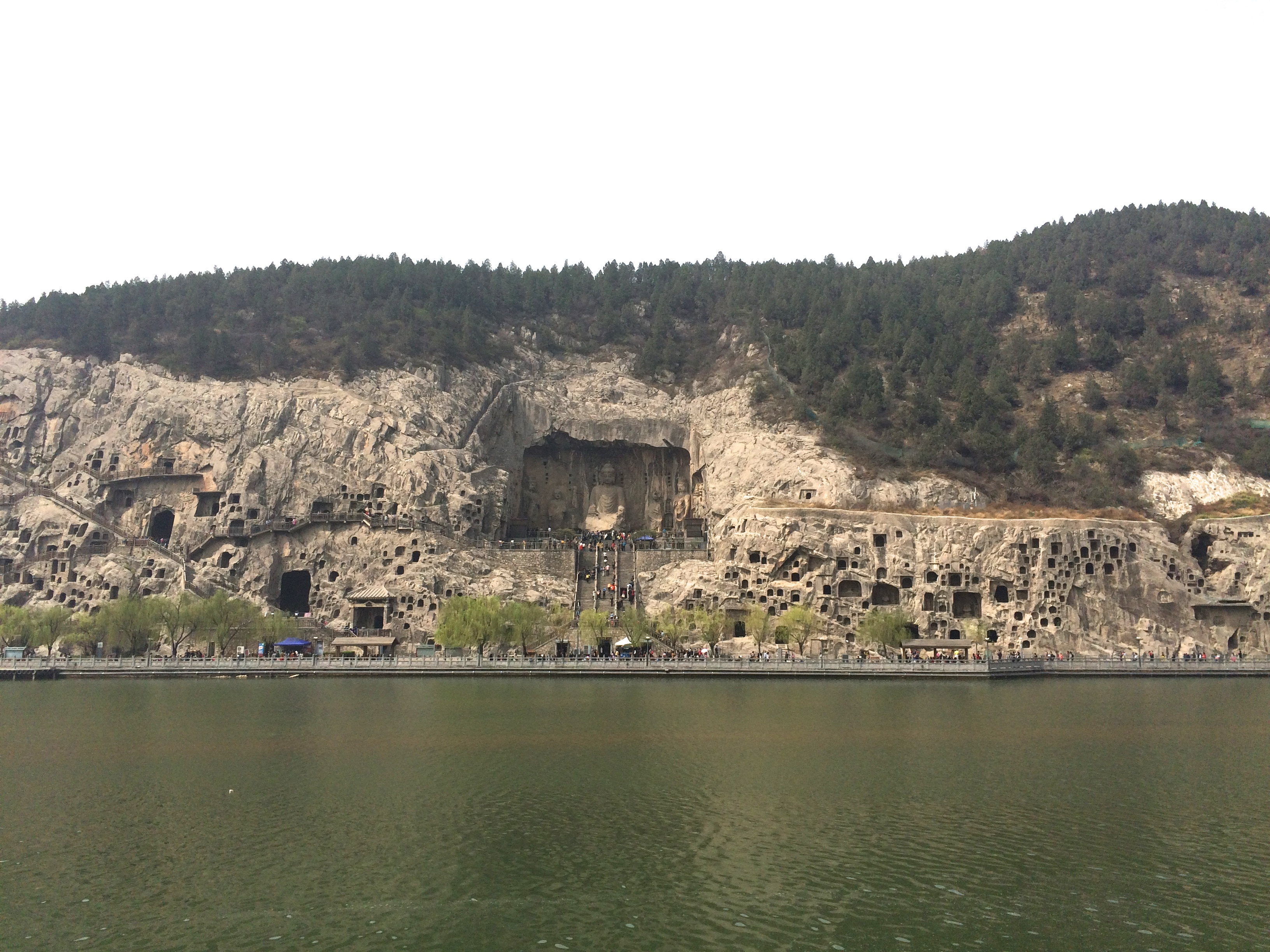 Longmen Grottoes, Luoyang, China